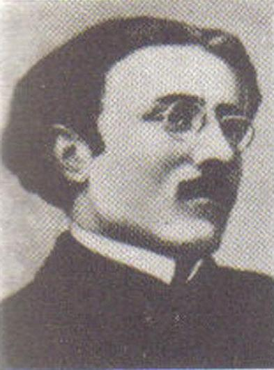 Dikran Chökürian.